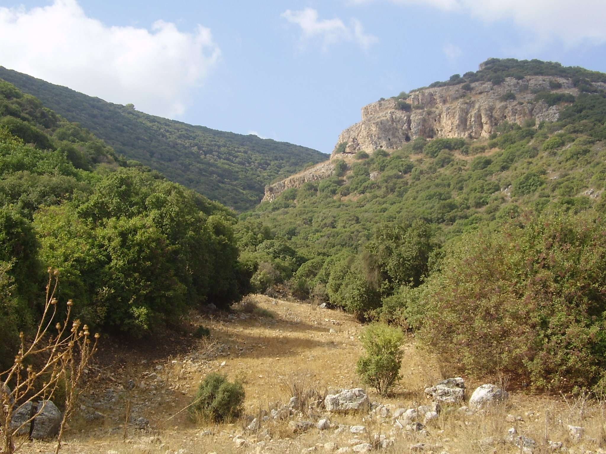 Mount Carmel